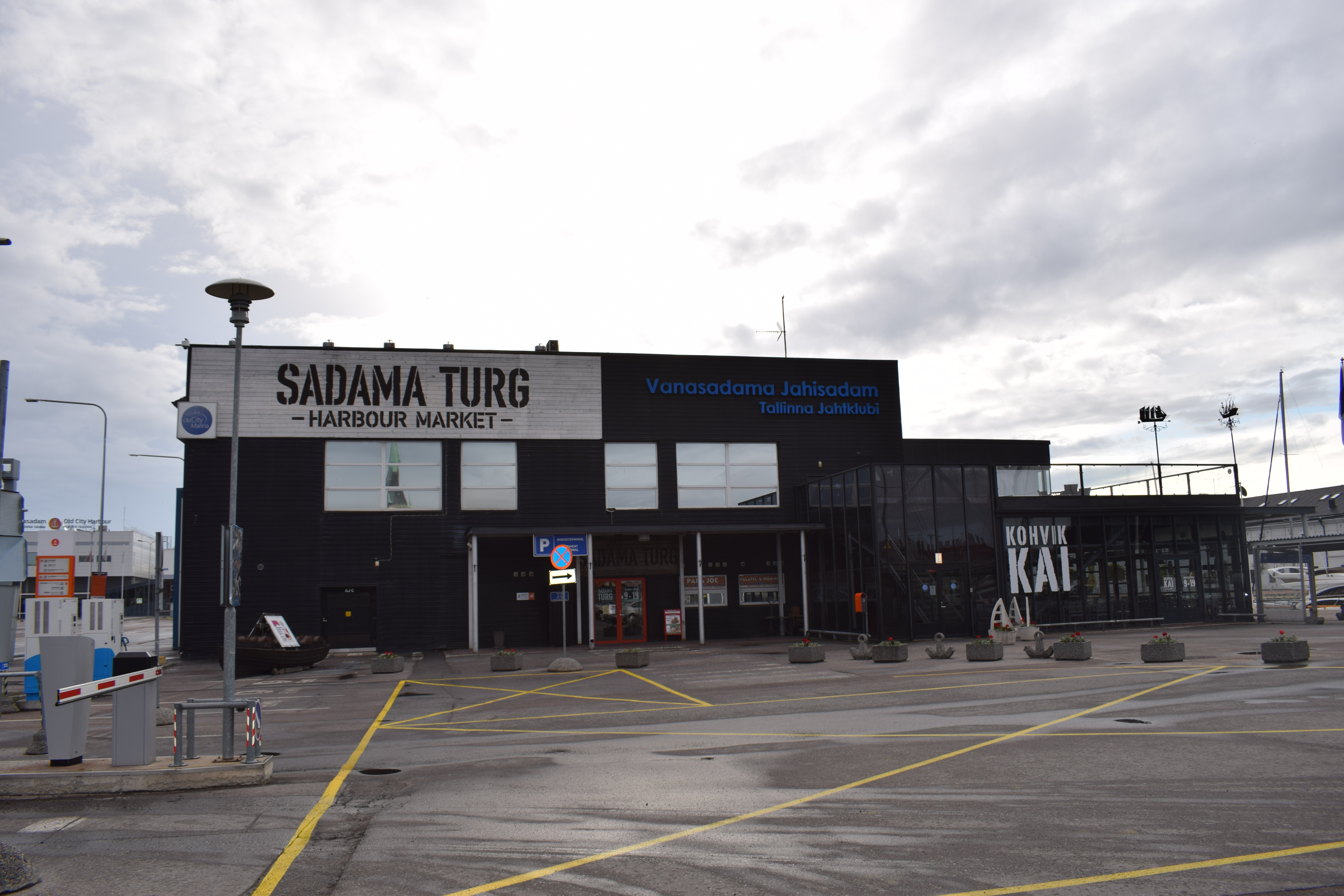 Sadama market